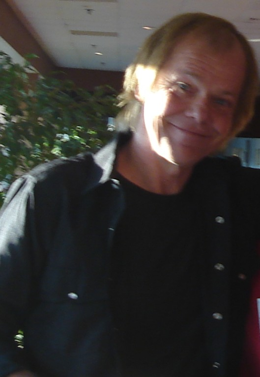 Steve Jay before performing at a "Weird Al" Yankovic concert